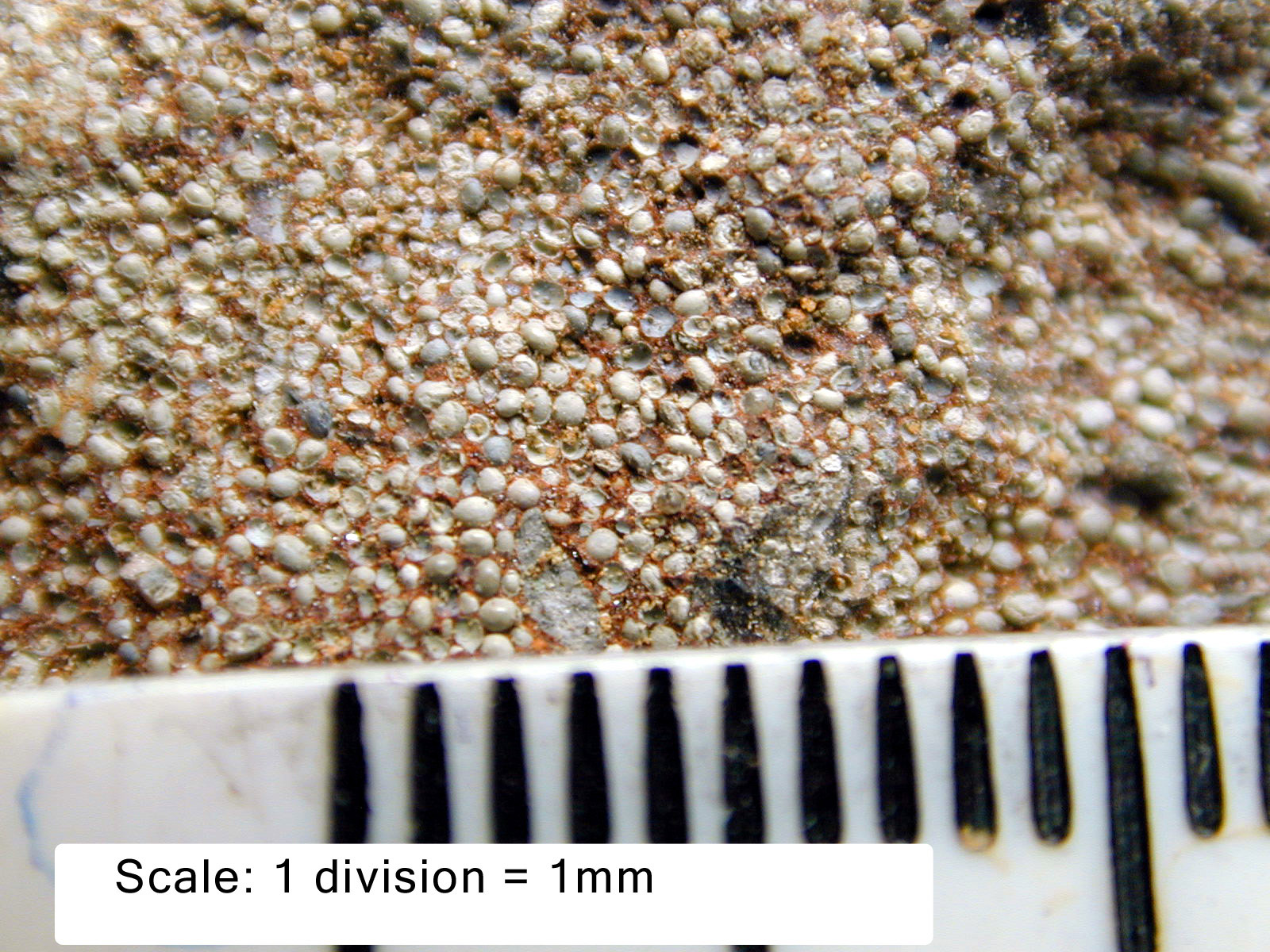 Close-up of Cleveland ironstone demonstrating oolitic texture. Scale: 1 division = 1 millimetre.